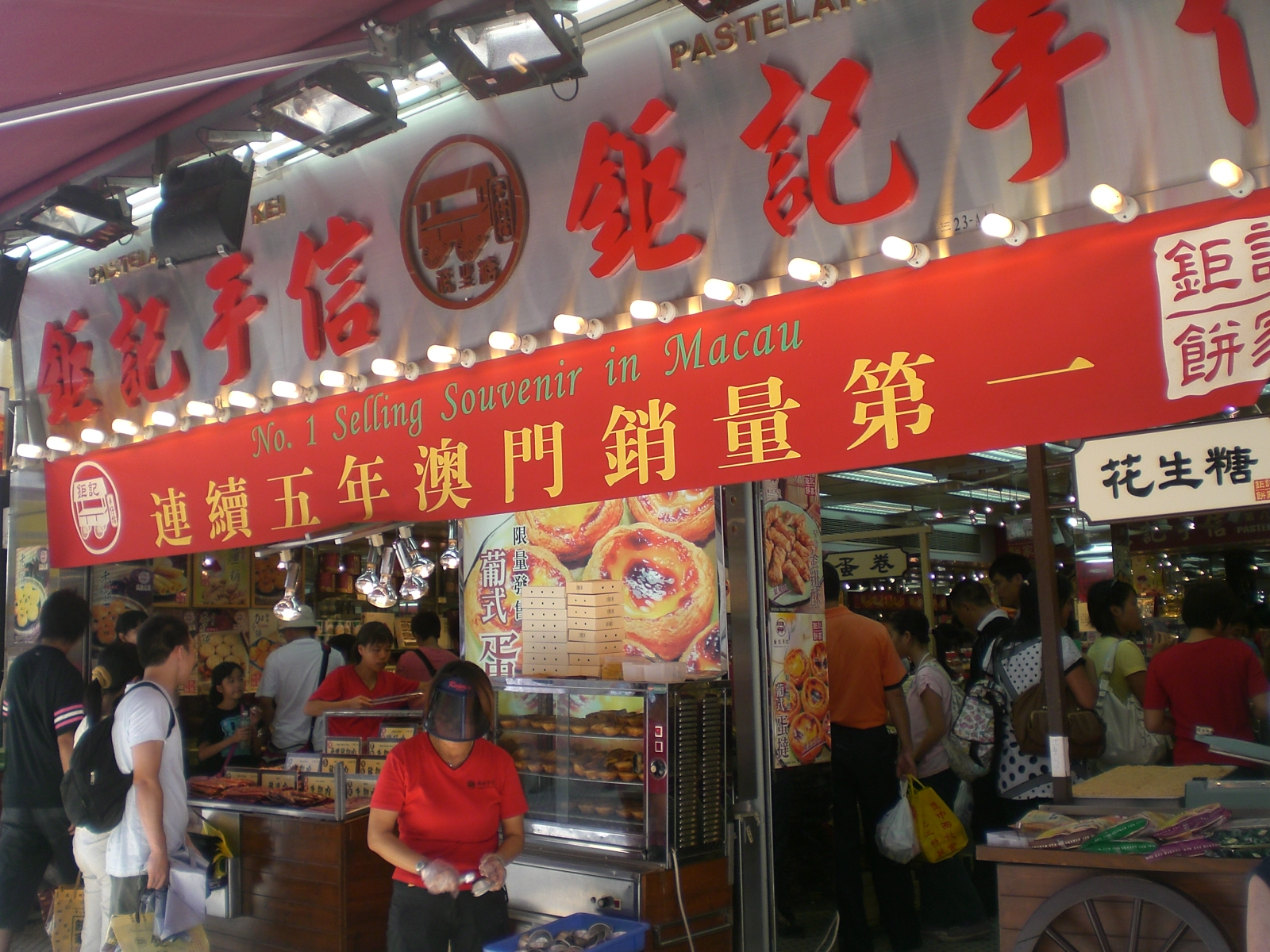 Souvenir shop in Macau, 手信, 鉅記餅家 Author= Mo707